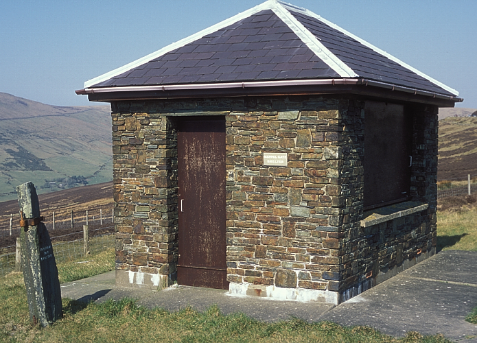 Marshall Signal Station at Keppel Gate, Onchan Parish, Isle of Man